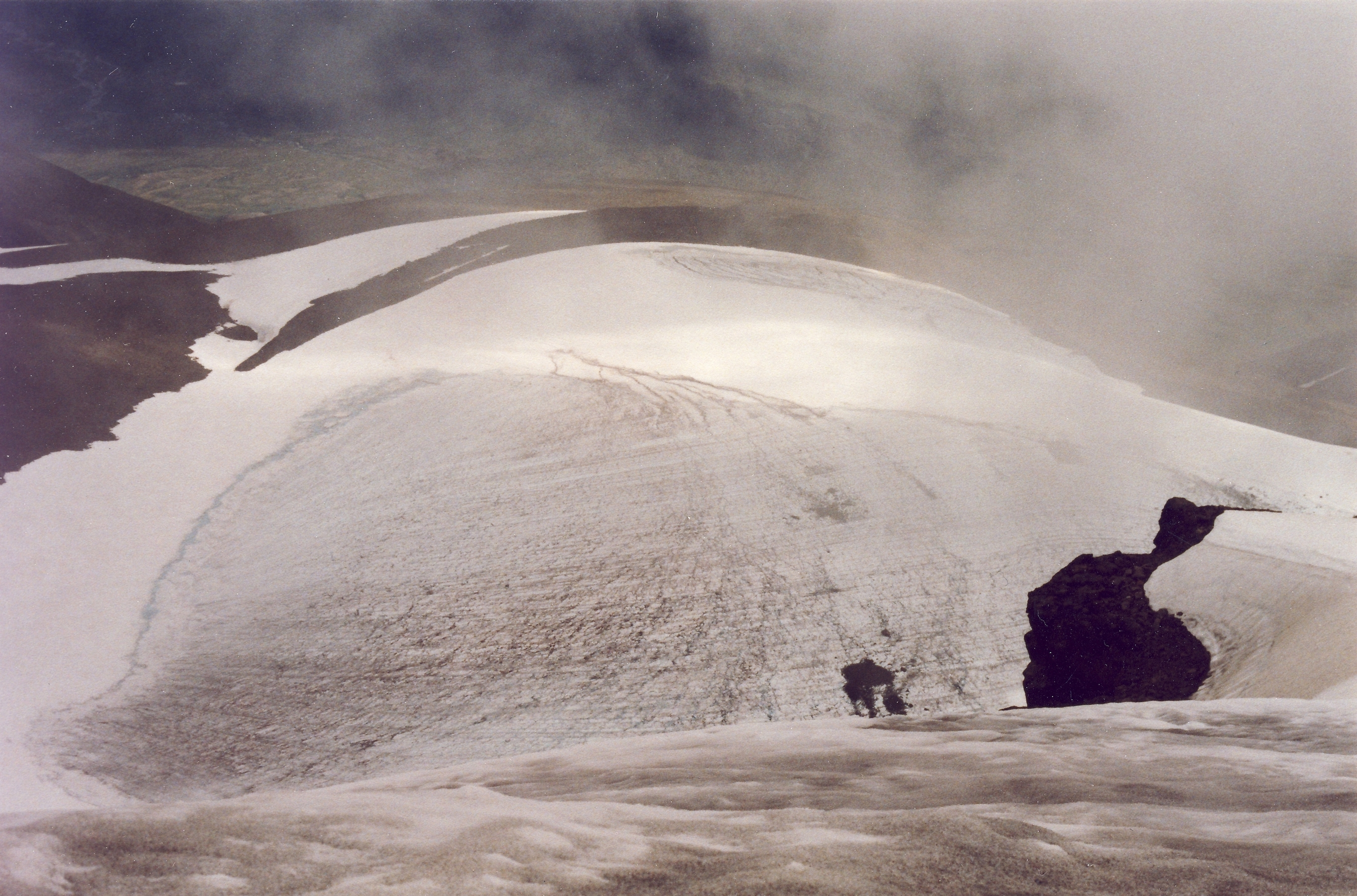 A view to a glacier down below from the top of Kebnekaise in Sweden